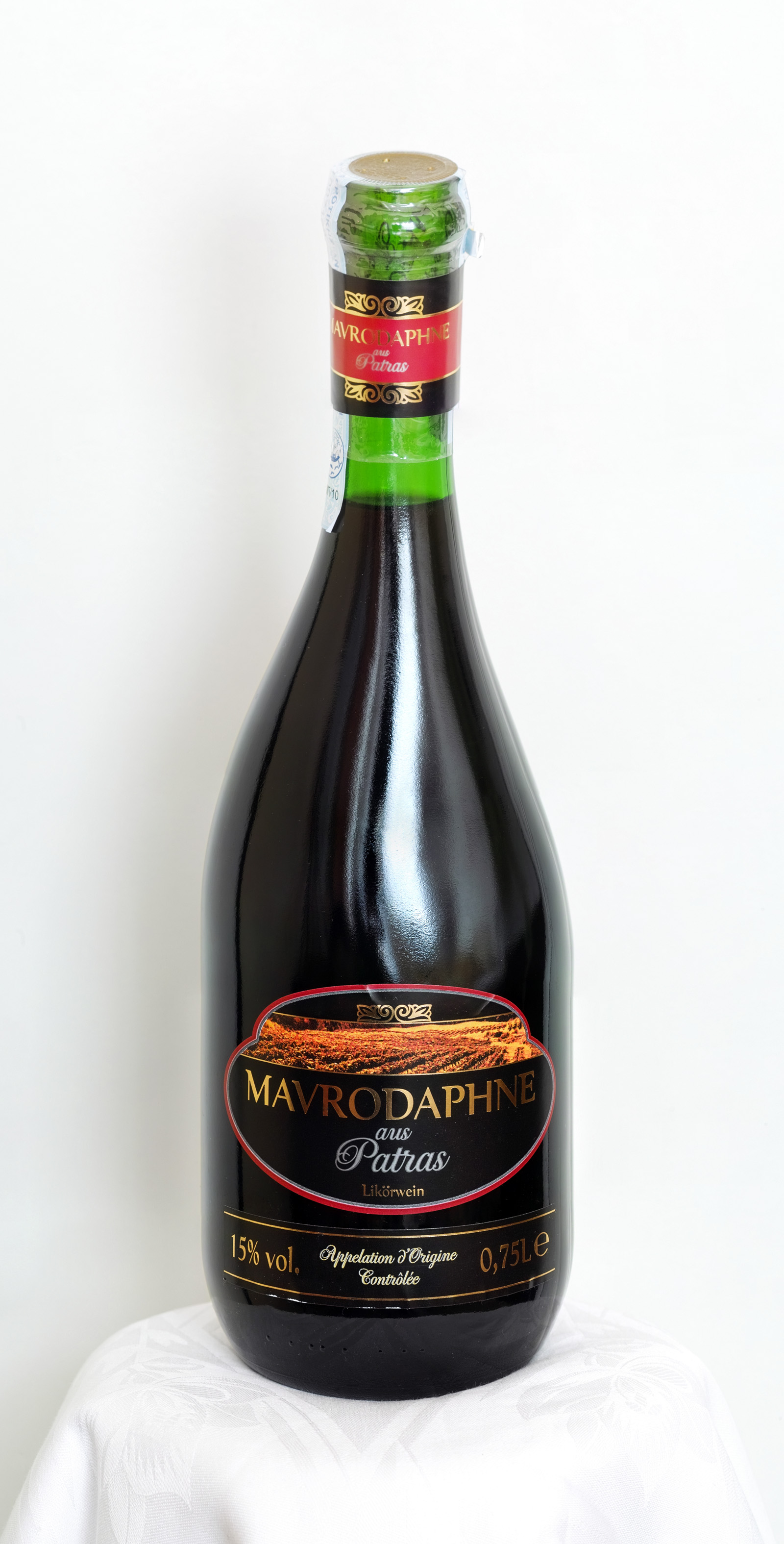 Mavrodaphne, bottle 0.75l, dessert wine. Botteled by Cavino